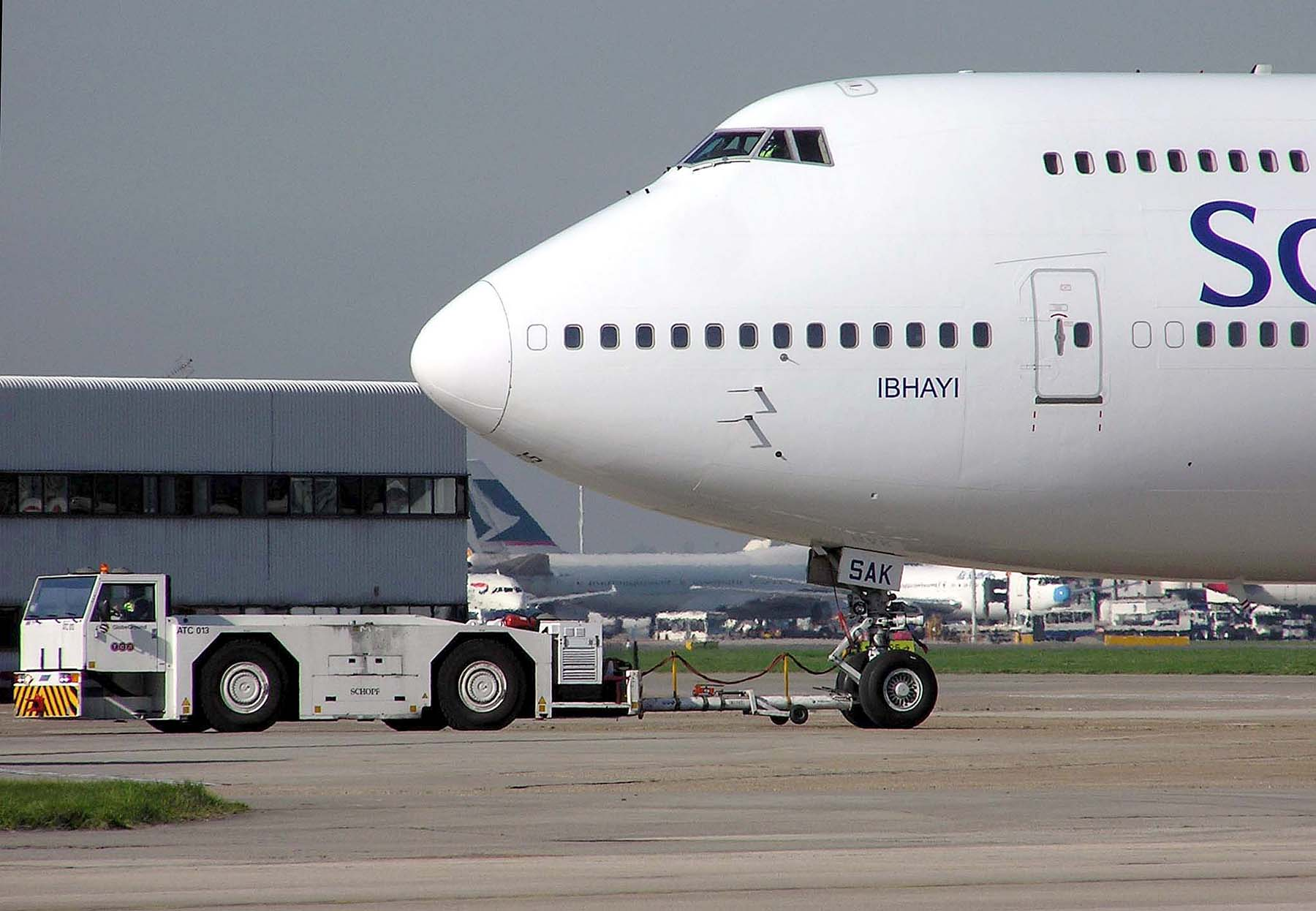 South African Airways Boeing 747-400 (ZS-SAK) on tow at London Heathrow Airport, England. Photographed by Adrian Pingstone in April 2005 and released to the public domain.